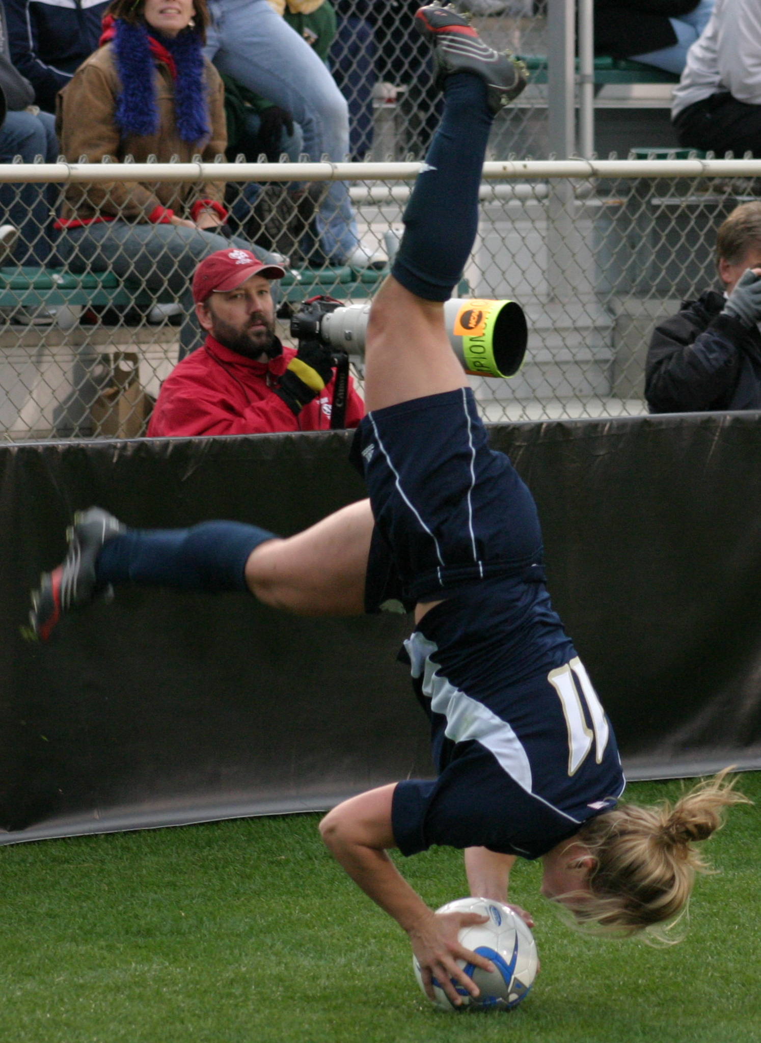 Michele Weissenhofer, a forward for Notre Dame Fighting Irish women's soccer, attempting a flip throw-in. Taken during the 2006 NCAA Division I Women's Soccer Tournament championship game between North Carolina Tar Heels and Notre Dame Fighting Irish at SAS Soccer Park in Cary, NC on Sunday, December 3, 2006.